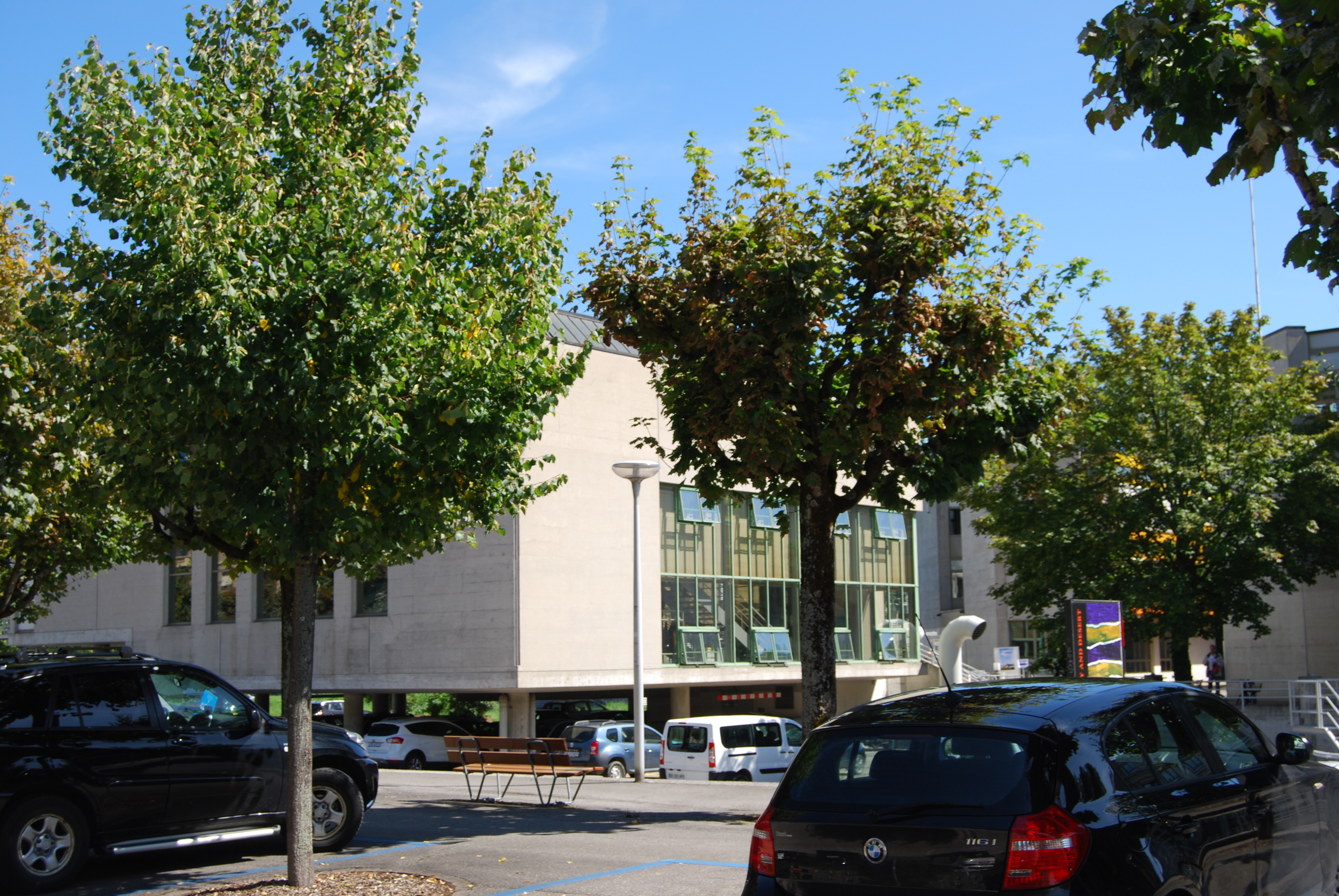 University of Neuchâtel, canton of Neuchâtel, Switzerland